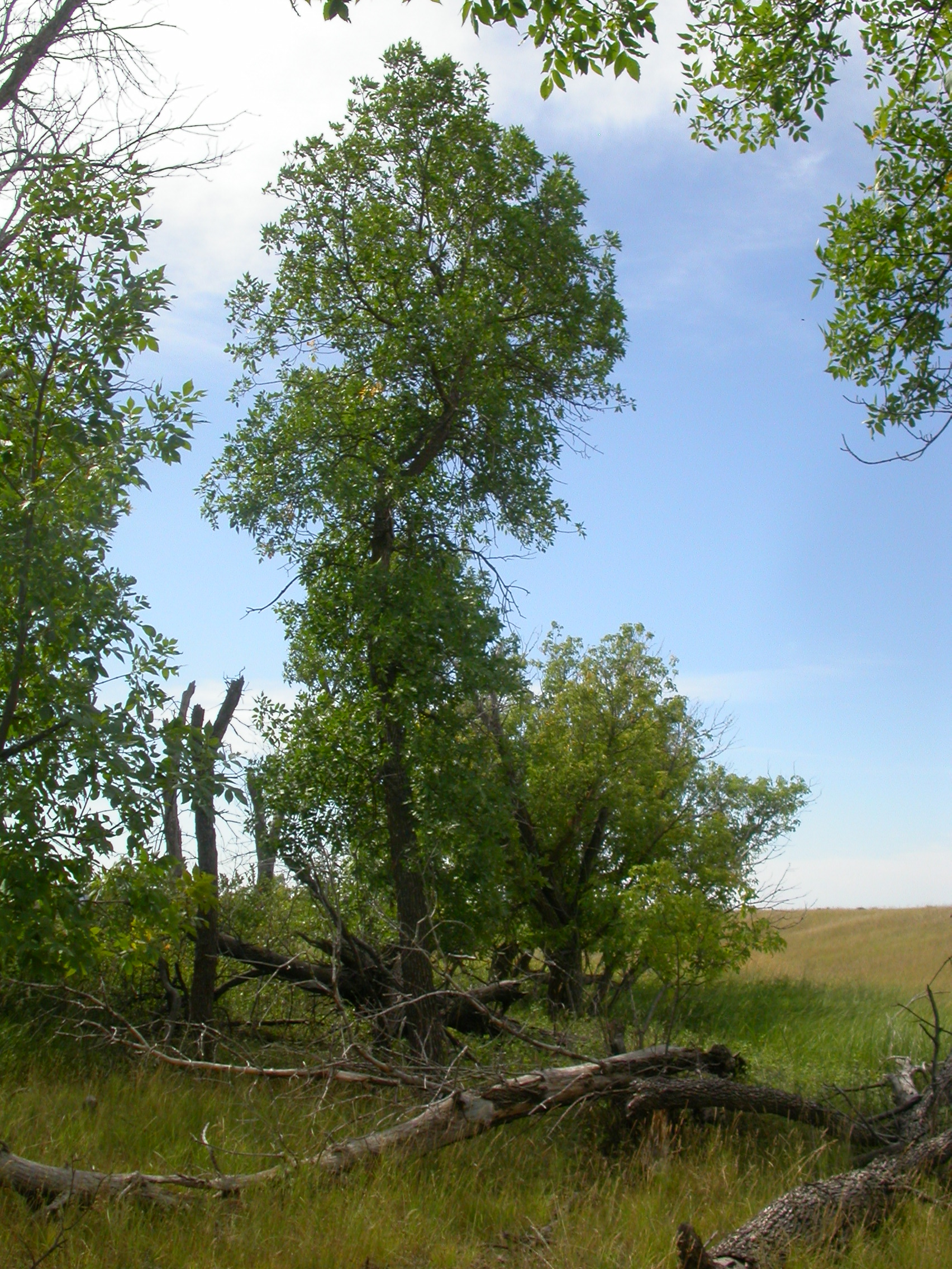 Green ash is a species of riparian or low seep areas and often forms a tree with a single main trunk, in contrast to boxelder (Acer negundo).